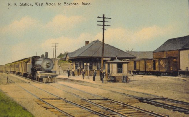 Early divided back postcard of West Acton station